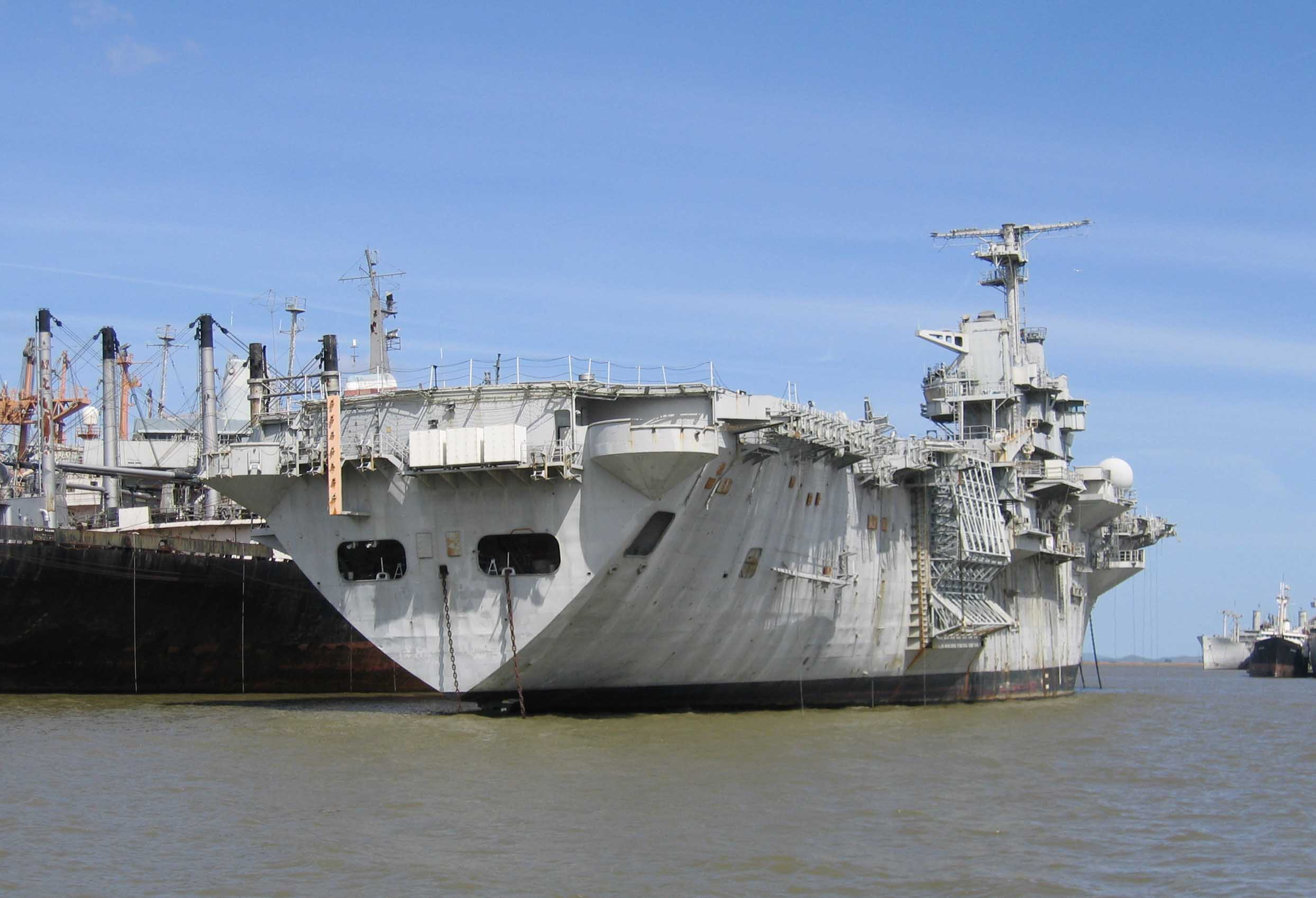 USS New Orleans, seen from M/V Journey in Martinez, California